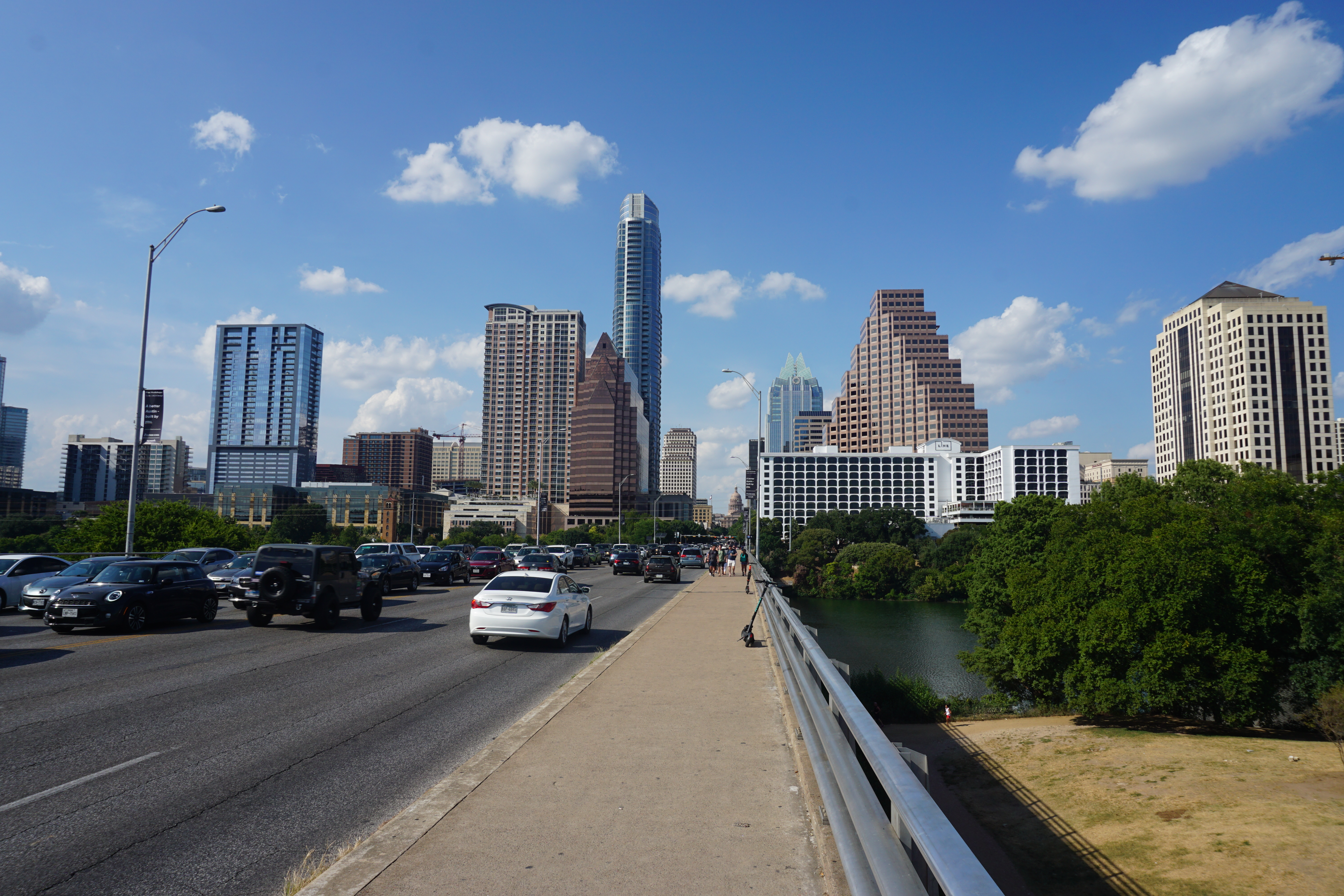 The Ann W. Richards Congress Avenue Bridge in Austin, Texas (United States).